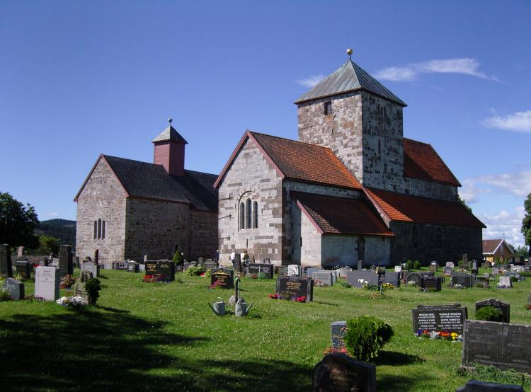 Church. The Sister Churches on Gran, Hadeland, Norway. The biggest: Nicholai-church, the smaller ove: Maria-church. Both are medieval churches from around year 1200.